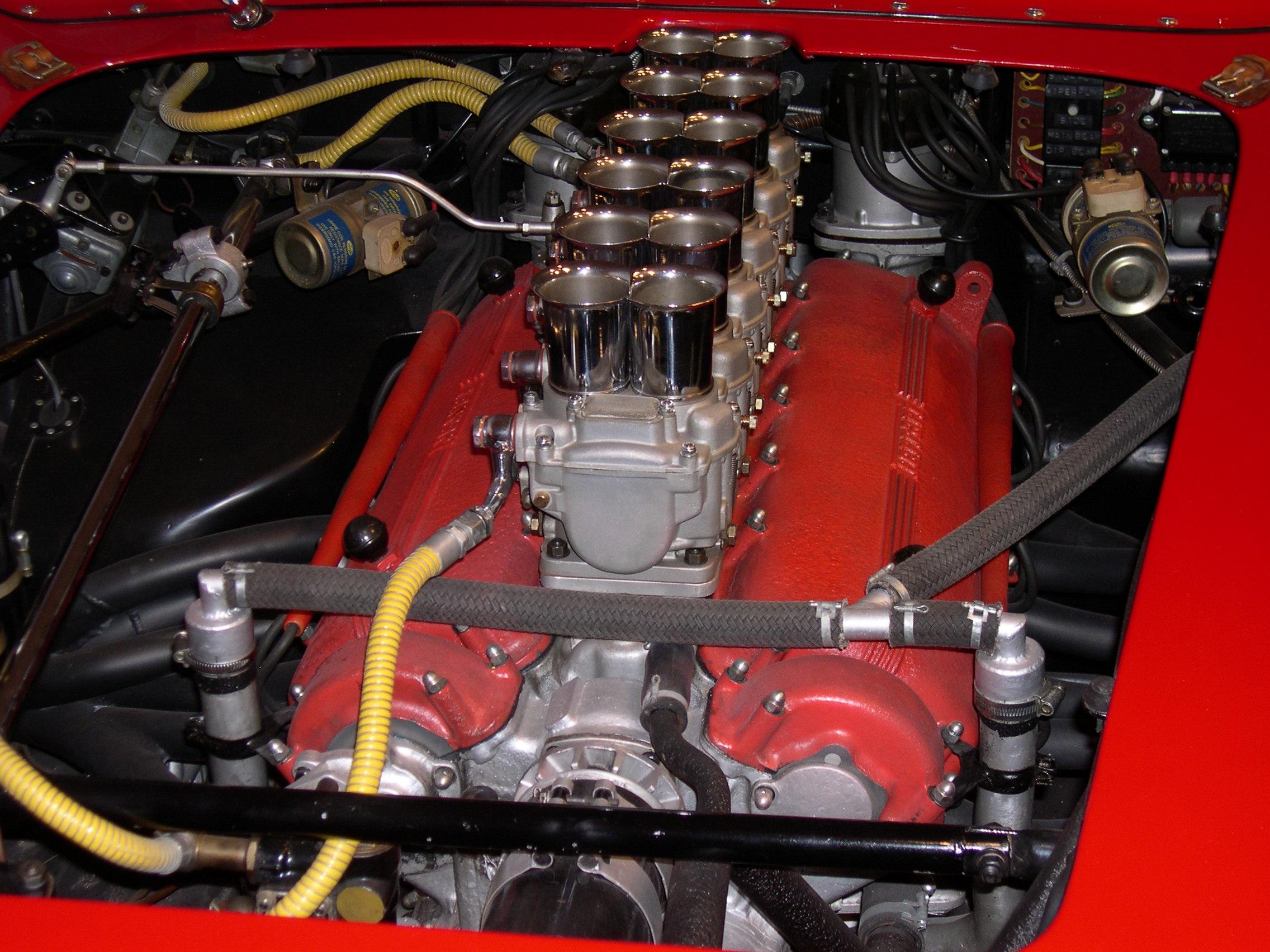 1961 Ferrari 250 TR 61 Spyder Fantuzzi 250 Colombo Testa Rossa engine From the Ralph Lauren collection on display at the Boston Museum of Fine Arts. Photo taken in 2005. Source: Photo by User:Sfoskett